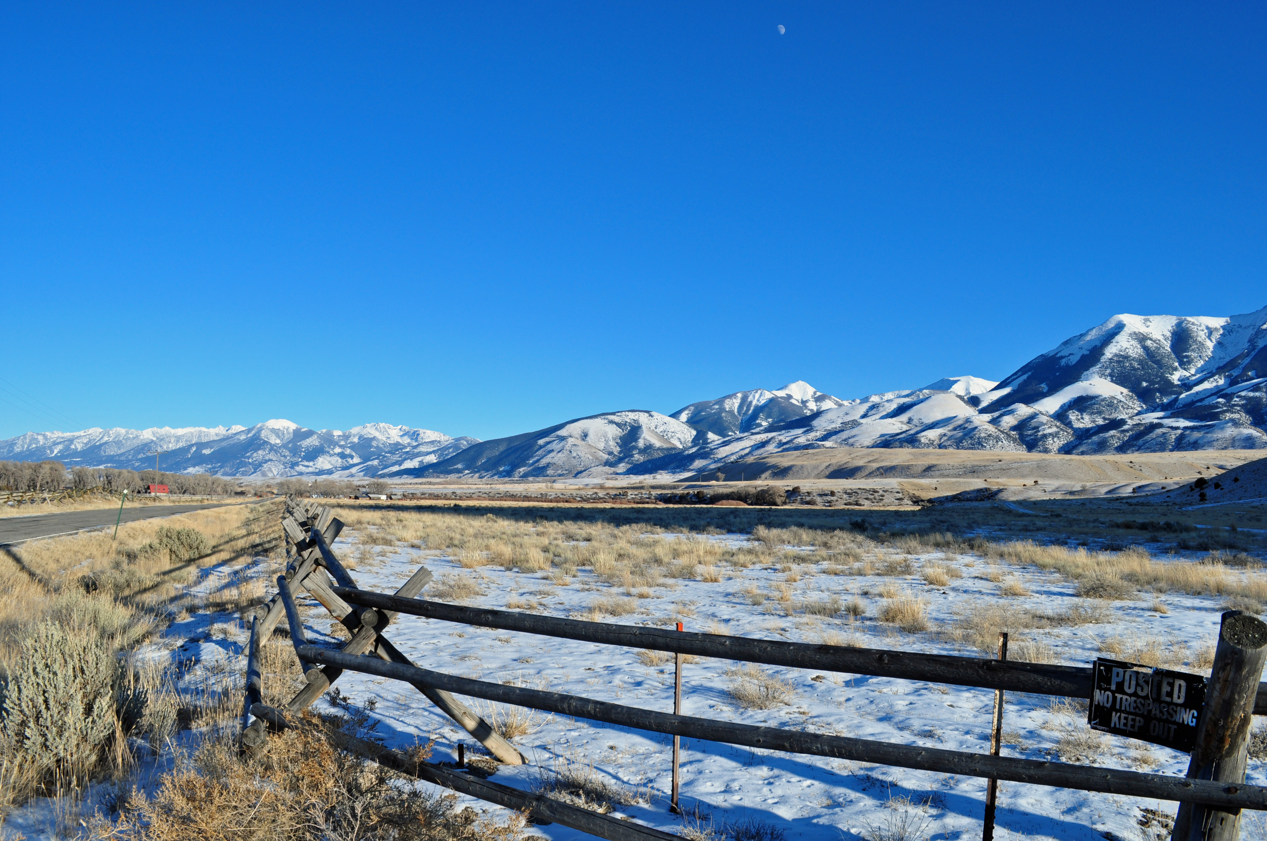 West side of Absaroka Range in Paradise Valley, near Emigrant, Montana 2009